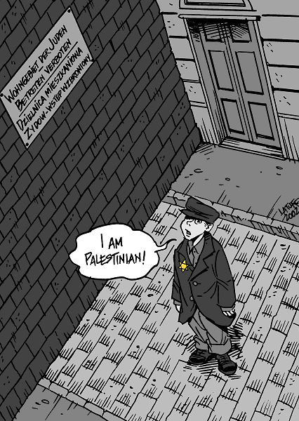 We are all Palestinian by Latuff